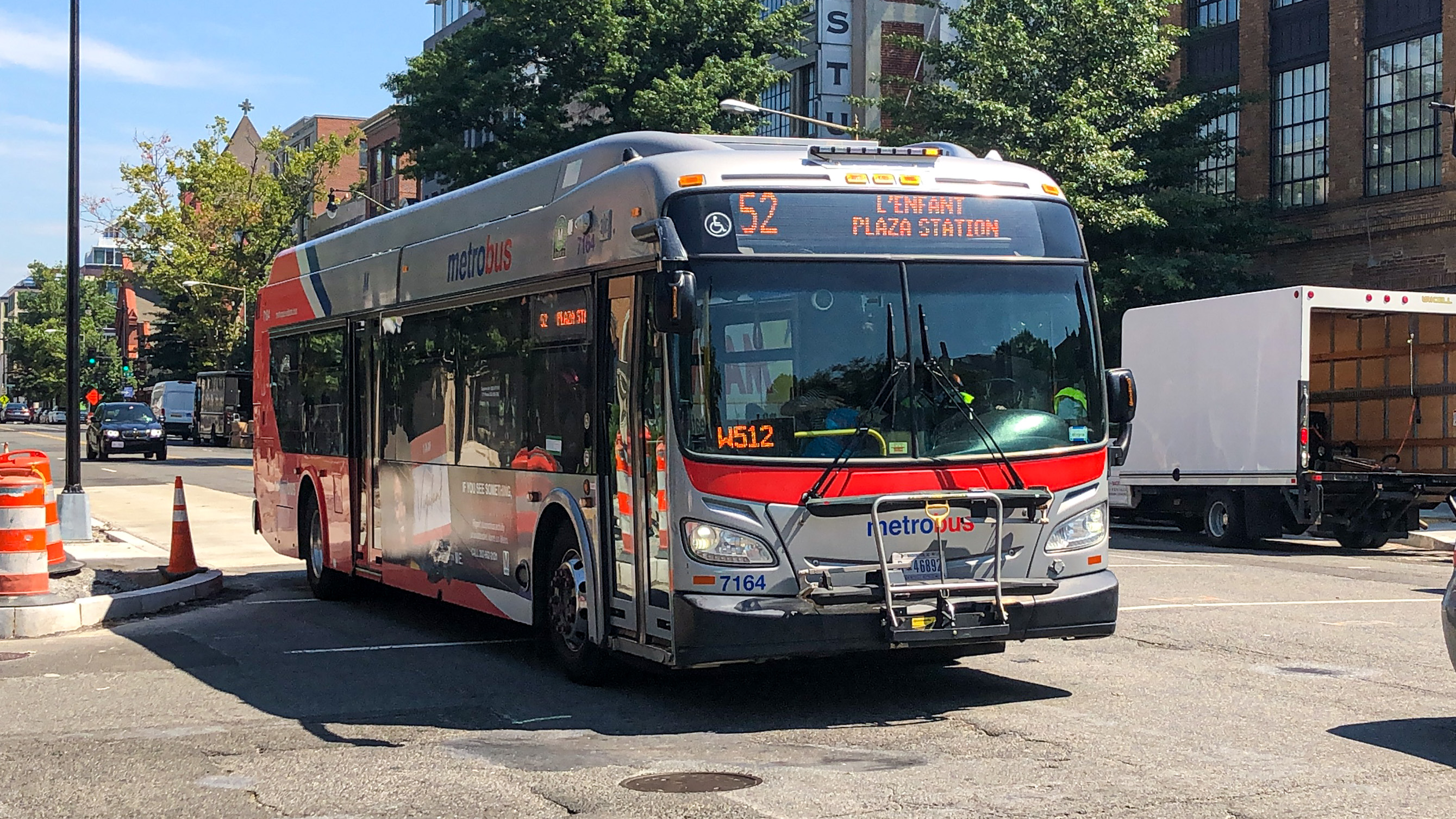 WMATA New Flyer XDE40 7164 on Route 52 along 14th Street